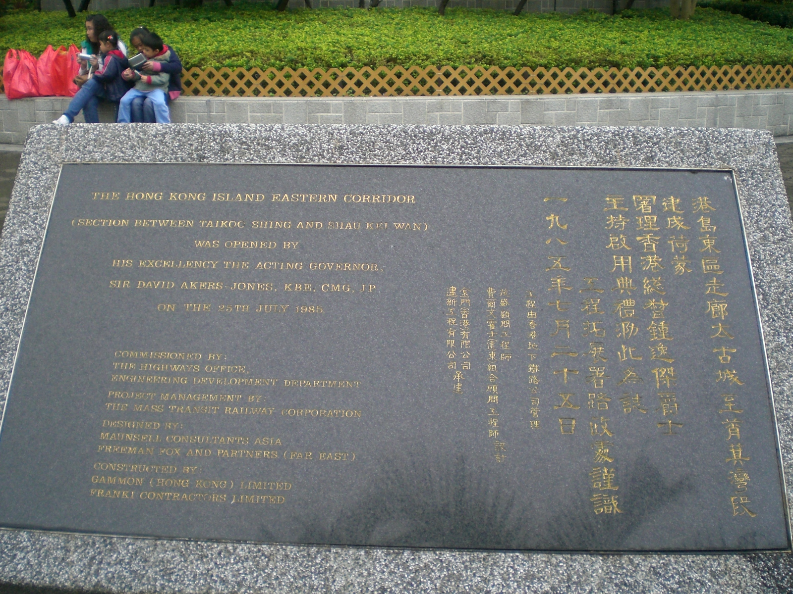 Island Eastern Corridor, the section between Shau Kei Wan to Taikoo Shing. 東區走廊石銘. Photo by me.